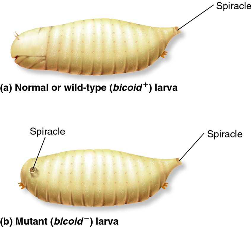 Bicoid-mutant femails have embrios with two spiracles and without head segment.